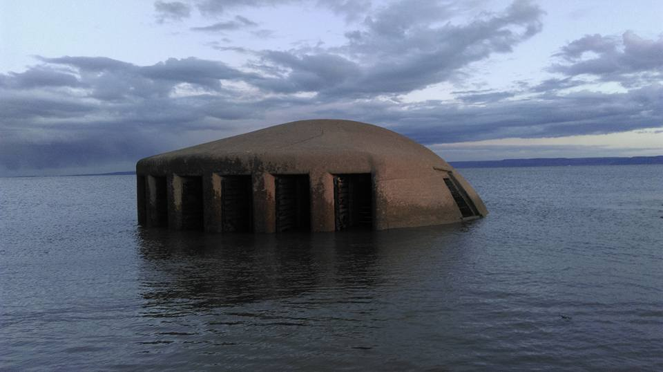 One of two Aberthaw "B" power station Cooling Sea Water Outlets in Limpert Bay, for Aberthaw "B" Power Station. The sea water intake is via an offshore caisson connected by a subterranean tunnel to the power station site.